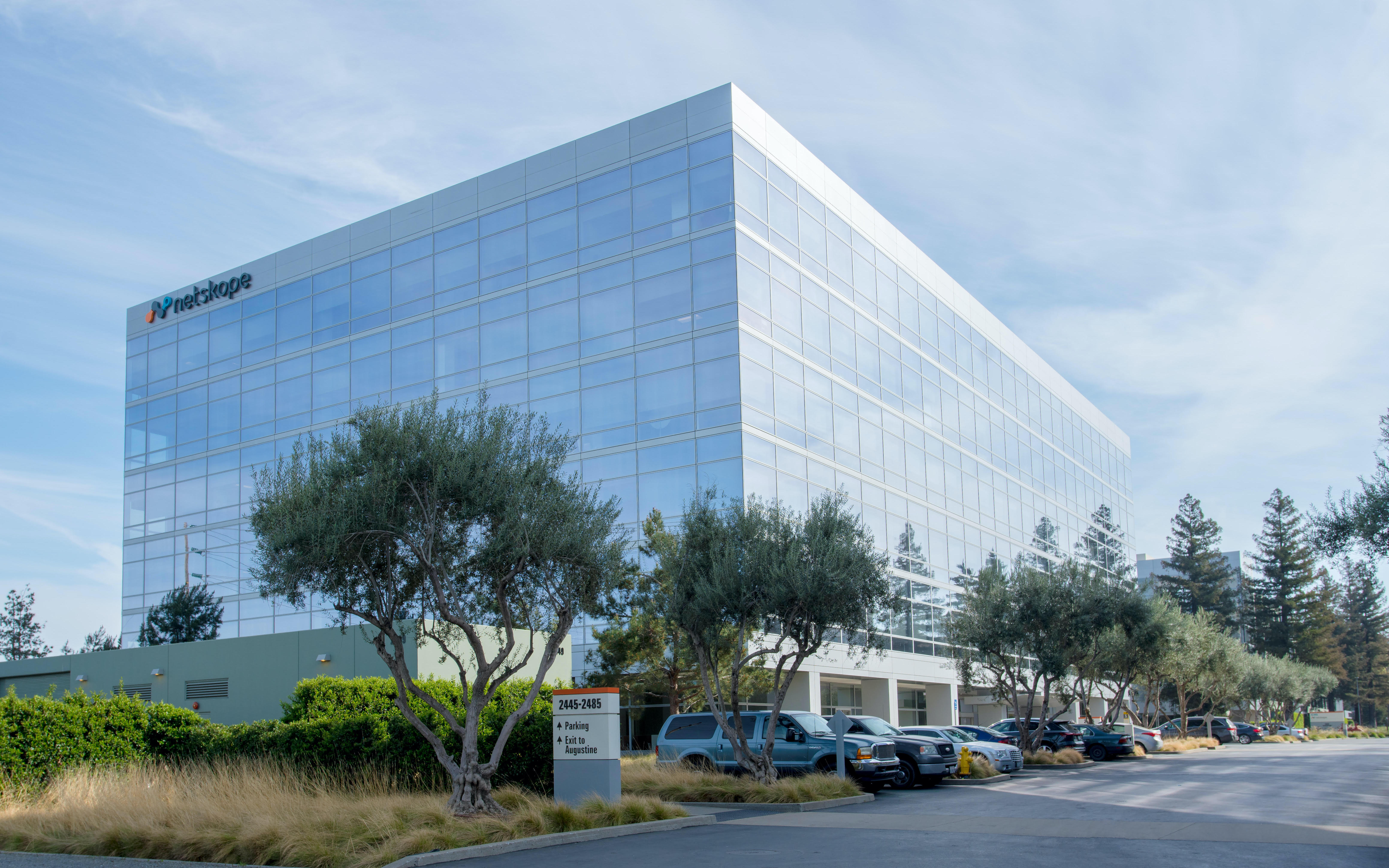 Netskope Headquarters on 2445 Augustine Drive in Santa Clara, California.